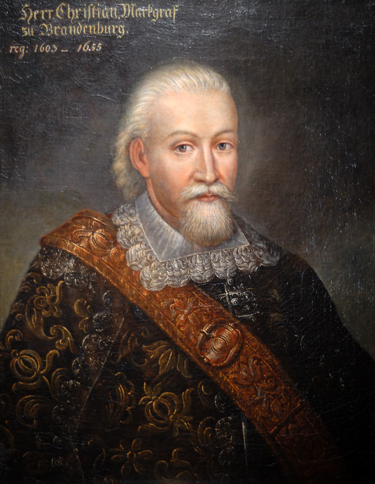 This image shows a portrait of Christian von Brandenburg-Bayreuth (1581-1655). The image has been taken at the Plassenburg in Kulmbach, Germany.